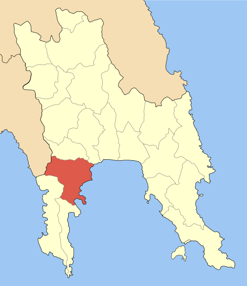 Locator map of Gythio municipality (Δήμος Γυθείου) in Lakonia prefecture (Νομός Λακωνίας) in Greece.